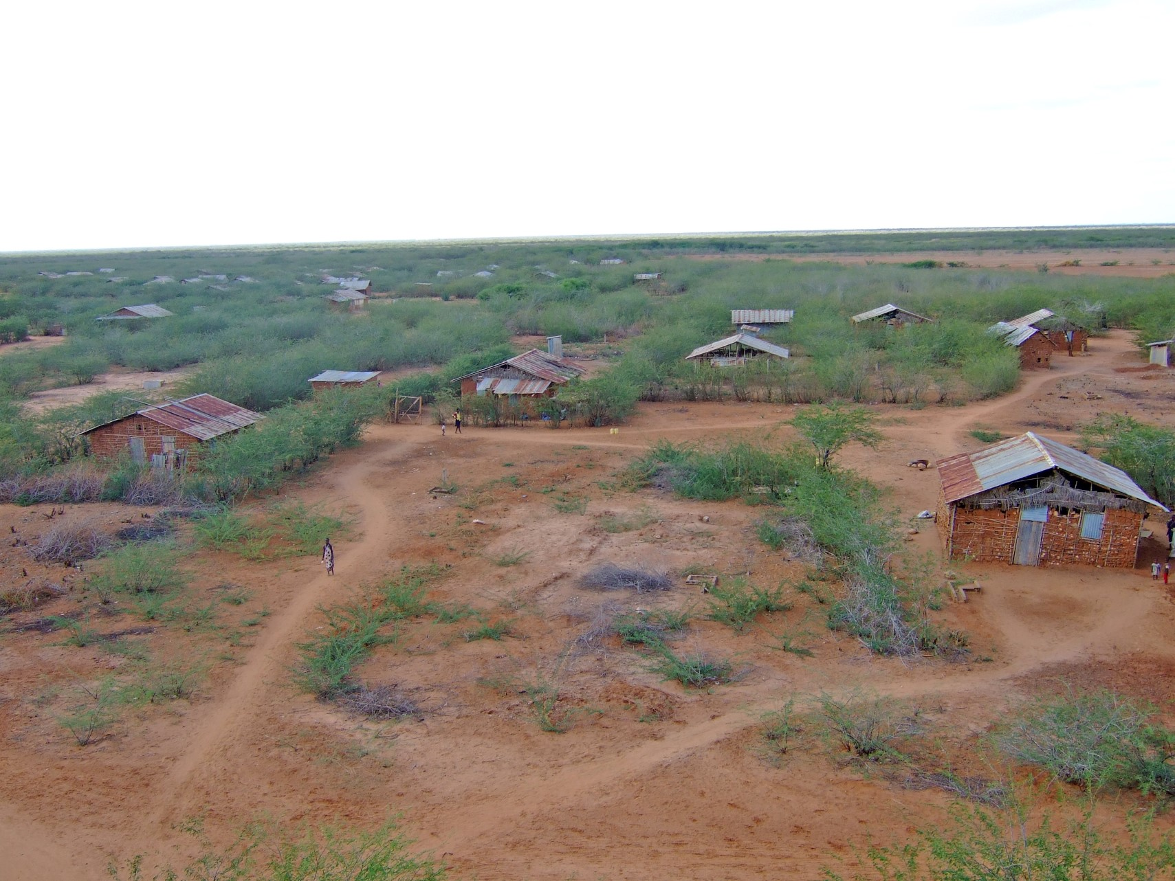 One of the villages in Bura Irrigation and Settlement Project. Only about 50% of the houses is still remaining. The picture was taken in 2008